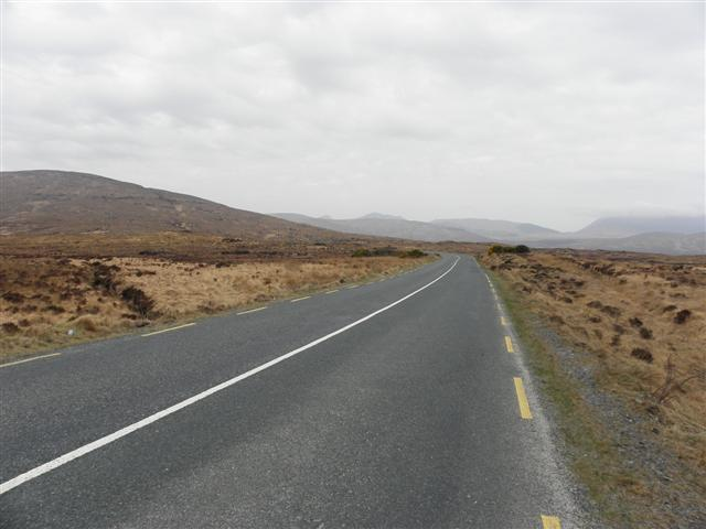 R255 at Ballybuninabber Heading WNW